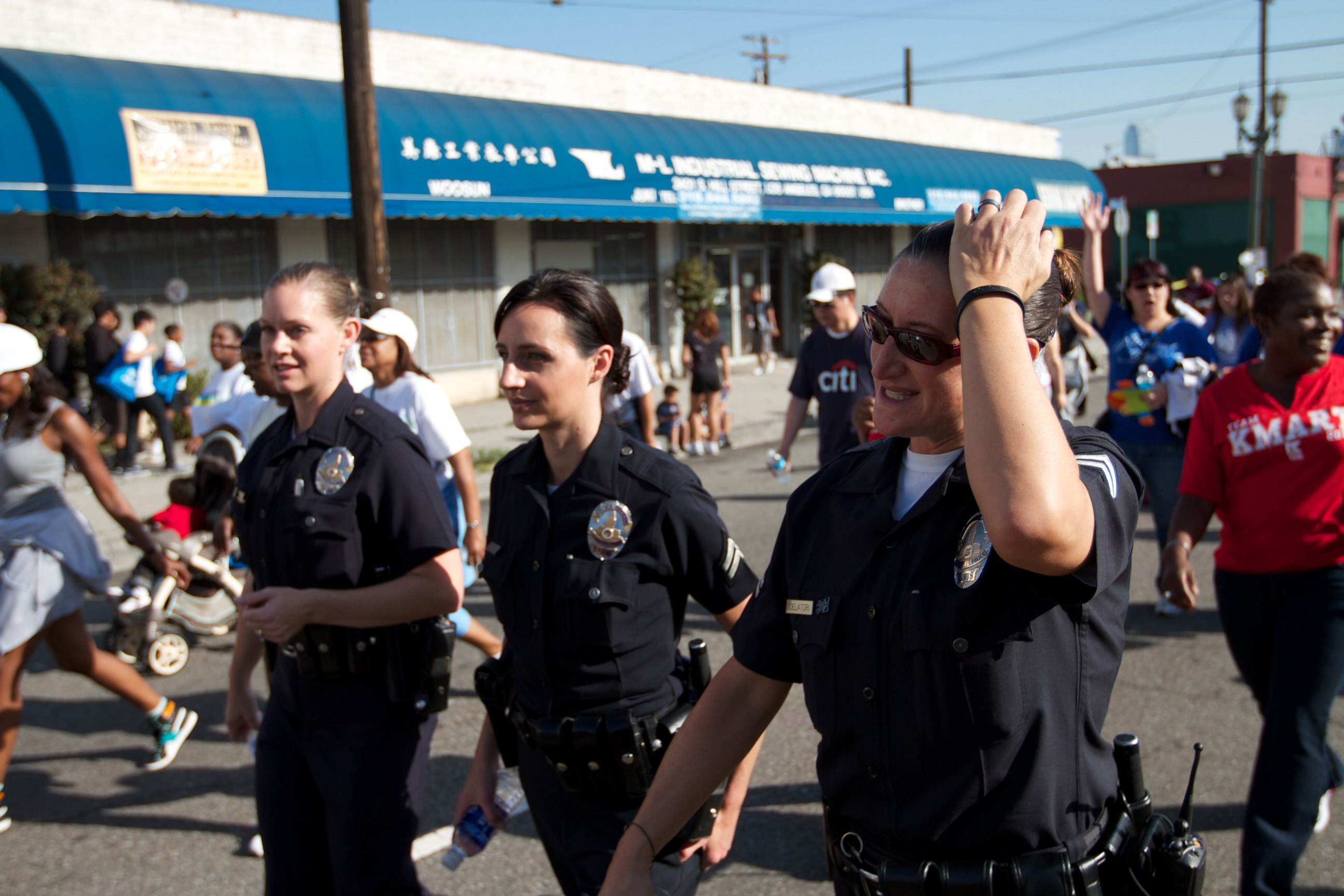 Three female LAPD officers taking part in the March of Dimes